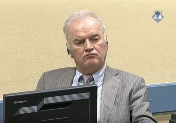 The closing arguments for the case against Ratko Mladic held in December 2016 marked the end of trials before the ICTY and his judgment is expected in November. Along with the case against Radovan Karadžić, Ratko Mladić's trial was one of the most complex trials in international law with over 350 Prosecution, Defense and Chamber witnesses testifying before the court.